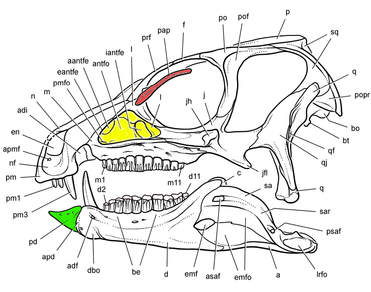 Heterodontosaurus skull reconstruction sereno 2012; colored in the predentary and premaxilla. Original description: Skull of Heterodontosaurus tucki from the Lower Jurassic Upper Elliot and Clarens formations of South Africa. New skull reconstruction in lateral view showing the dentition with intermediate wear (scleral ring not shown). Pink tone indicates wear facets. Abbreviations: a angular aantfe accessory antorbital fenestra adf anterior dentary foramen adi arched diastema antfo antorbital fossa apd articular surface for the predentary apmf anterior premaxillary foramen asaf anterior surangular foramen be buccal emargination bo basioccipital bt basal tubera c coronoid d dentary d2, d11 dentary tooth 2, 11 dbo dentary boss eantfe external antorbital fenestra emf external mandibular fenestra emfo external mandibular fossa en external naris f frontal iantfe internal antorbital fenestra j jugal jfl jugal flange jh jugal horn l lacrimal lrfo lateral retroarticular fossa m maxilla m1, 11 maxillary tooth 1, 11 n nasal nf narial fossa p parietal pap palpebral pd predentary pm premaxilla pm1, 3 premaxillary tooth 1, 3 pmfo promaxillary fossa po postorbital pof postorbital fossa popr paroccipital process prf prefrontal psaf posterior surangular foramen q quadrate qf quadrate foramen qj quadratojugal sa surangular sar surangular ridge sq squamosal.